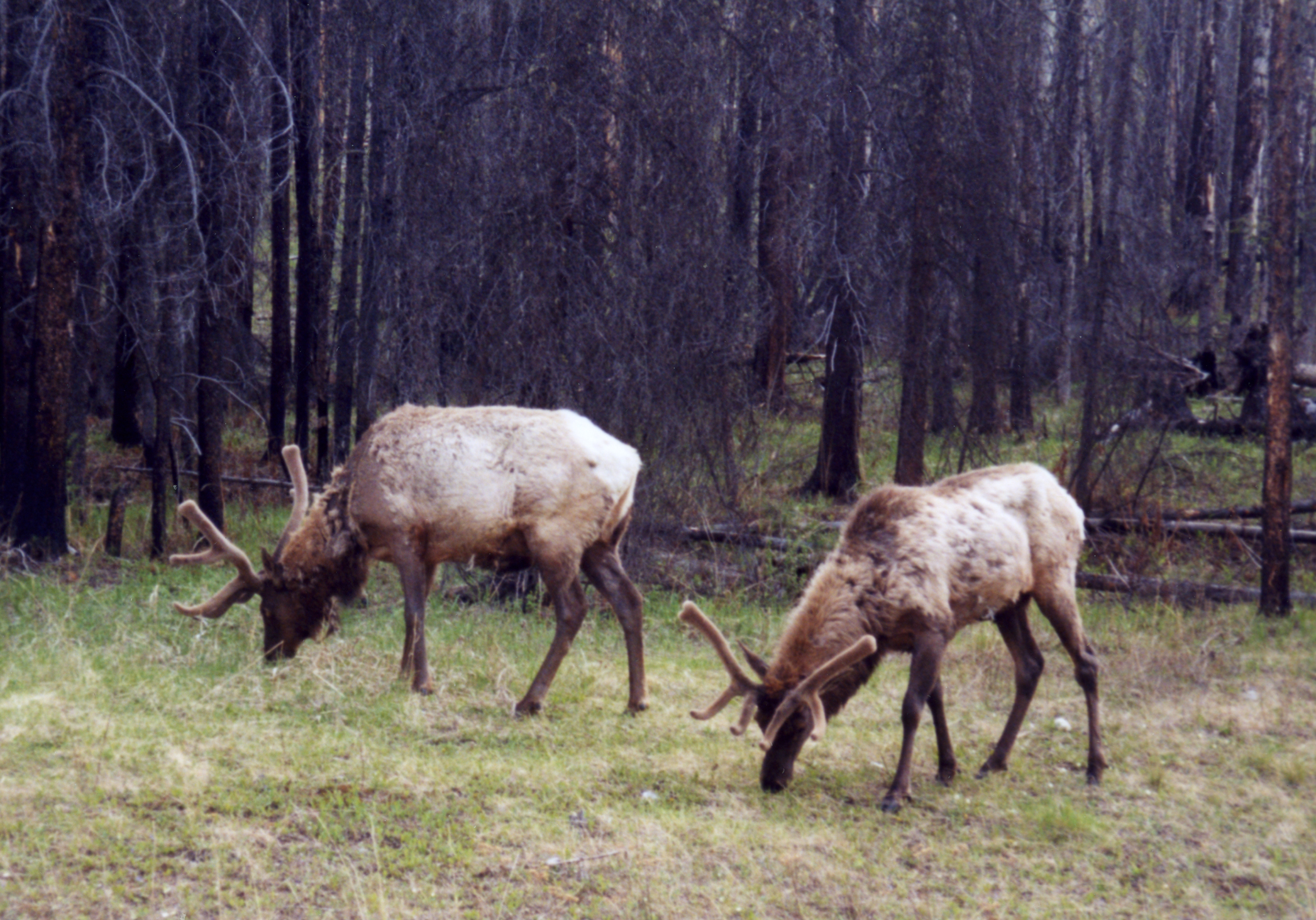 Elk in Banff National Park.